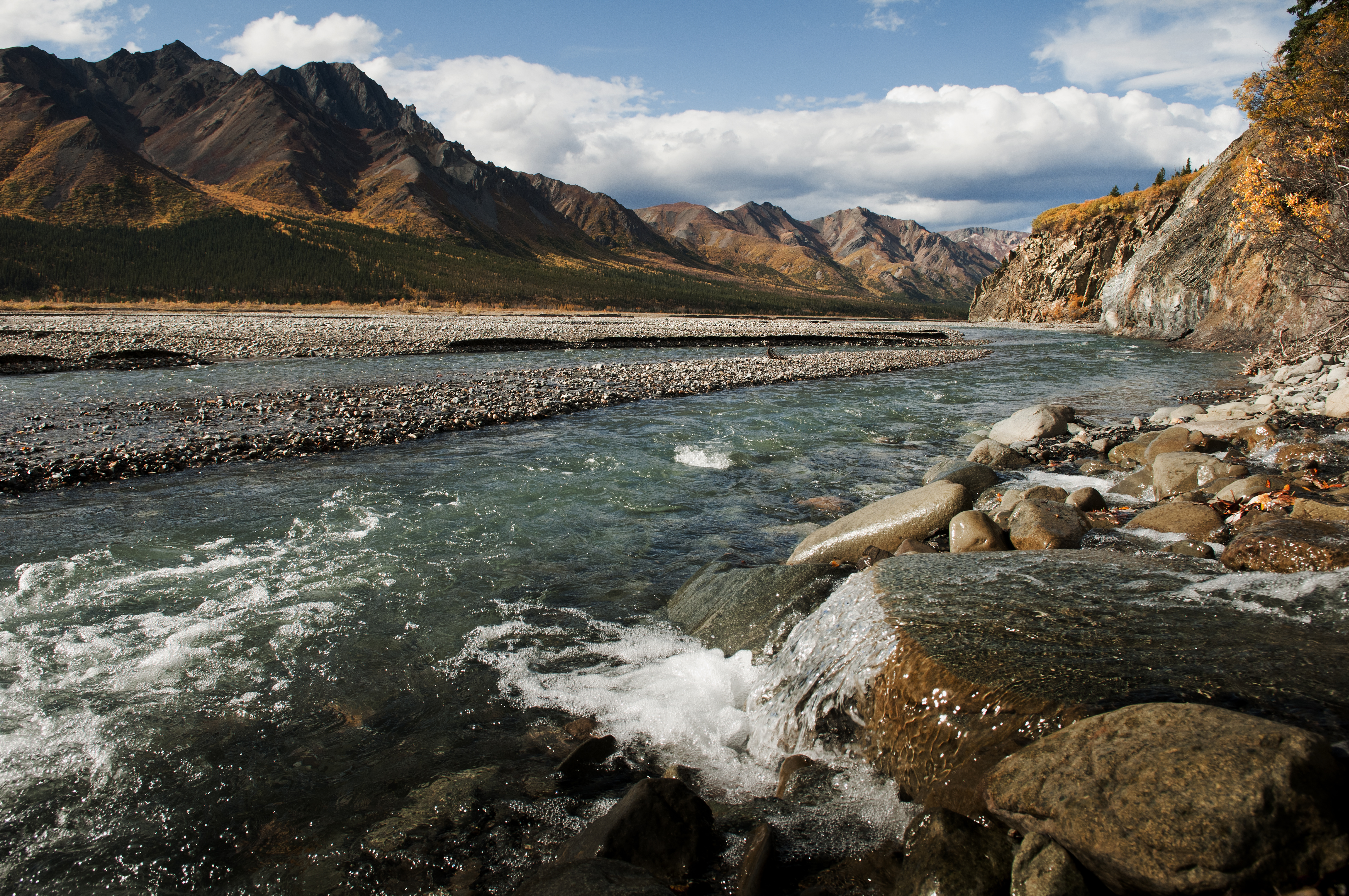 (NPS Photo/ Tim Rains) Check out the official Denali Facebook, Twitter and YouTube pages: Like us on Facebook: Follow us on Twitter: Denali YouTube Channel